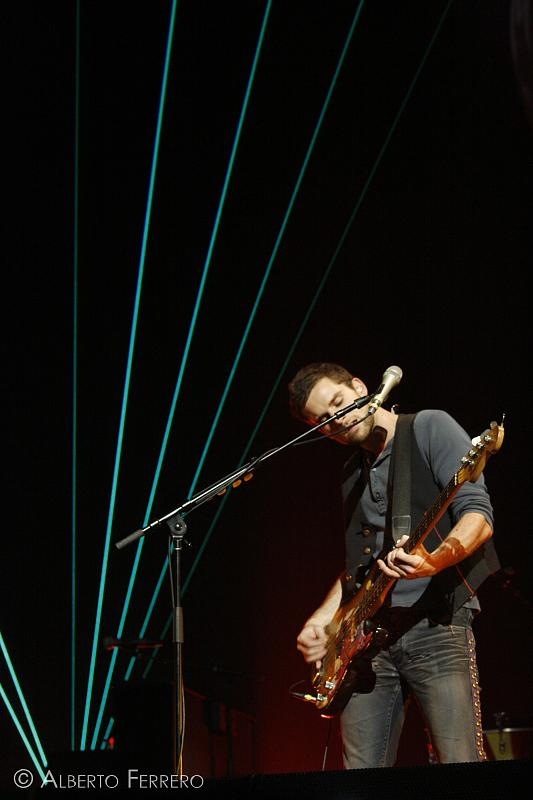 Guy Berryman playing the bass during Coldplay's 2008 Viva la Vida tour